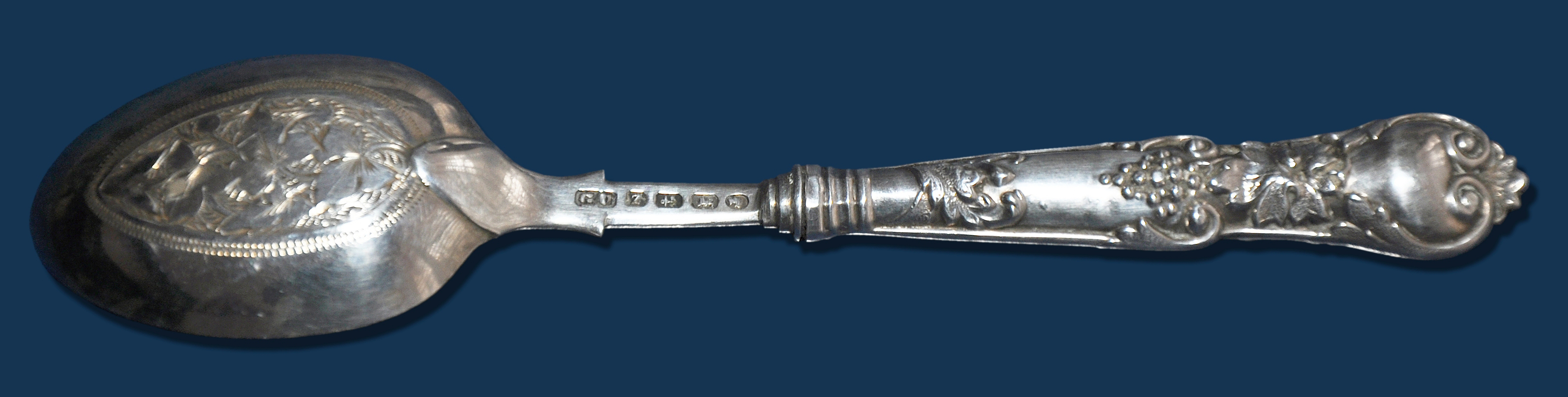 Silver Spoon from 1899, makers mark GU = George Unite, Caroline Street, Birmingham, England.